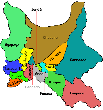 Map of Cochabamba Department in Bolivia